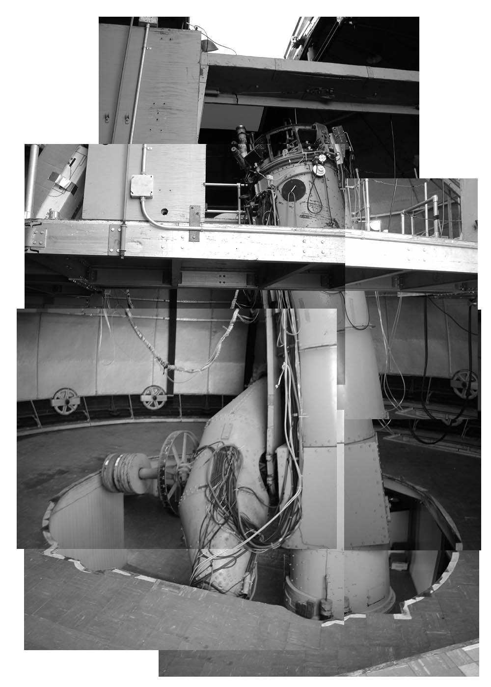 by David McInnis, 2002, while using the Crossley for thesis research.